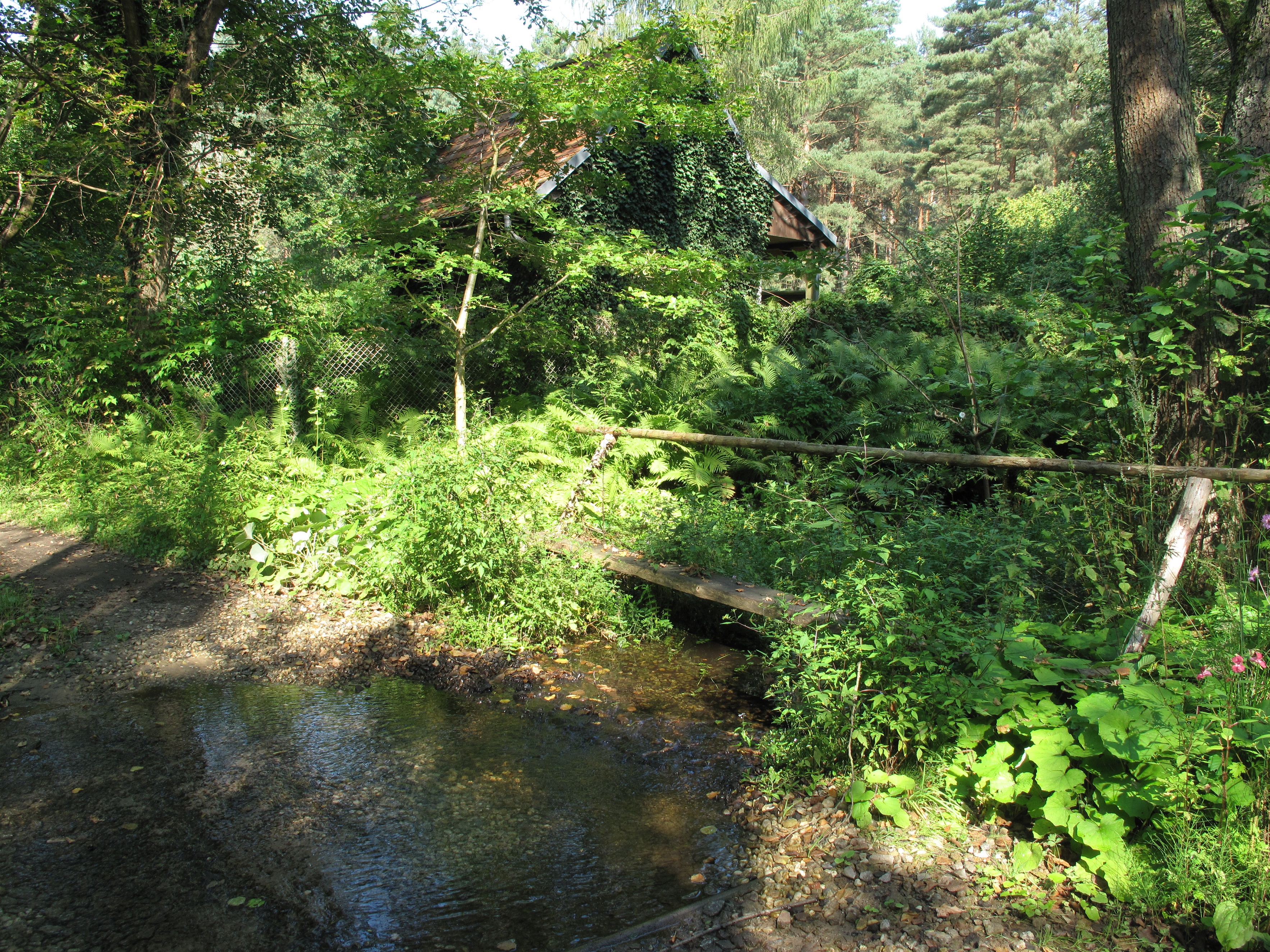 Bridge over the Blabbergraben at the former Blabberschäferei (sheep farm) in the village Görsdorf. The Blabbergraben is a stream in the District Oder-Spree, Brandenburg, Germany. Coming from the „ Herzberger See“ the stream connects five small, long lakes in the municipalities Rietz-Neuendorf and Tauche and drains them into the river Spree. Including the lakes the flow length is 13,7 kilometers.